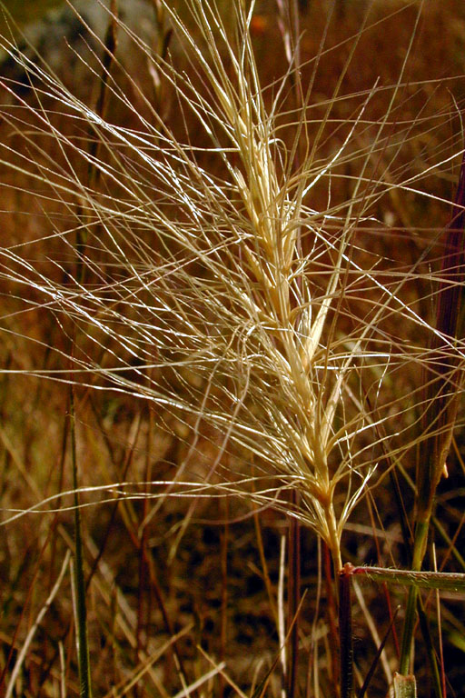 Elymus multisetus at Old St. Hilary's Open Space Preserve, Tiburon (Marin County, California, US).